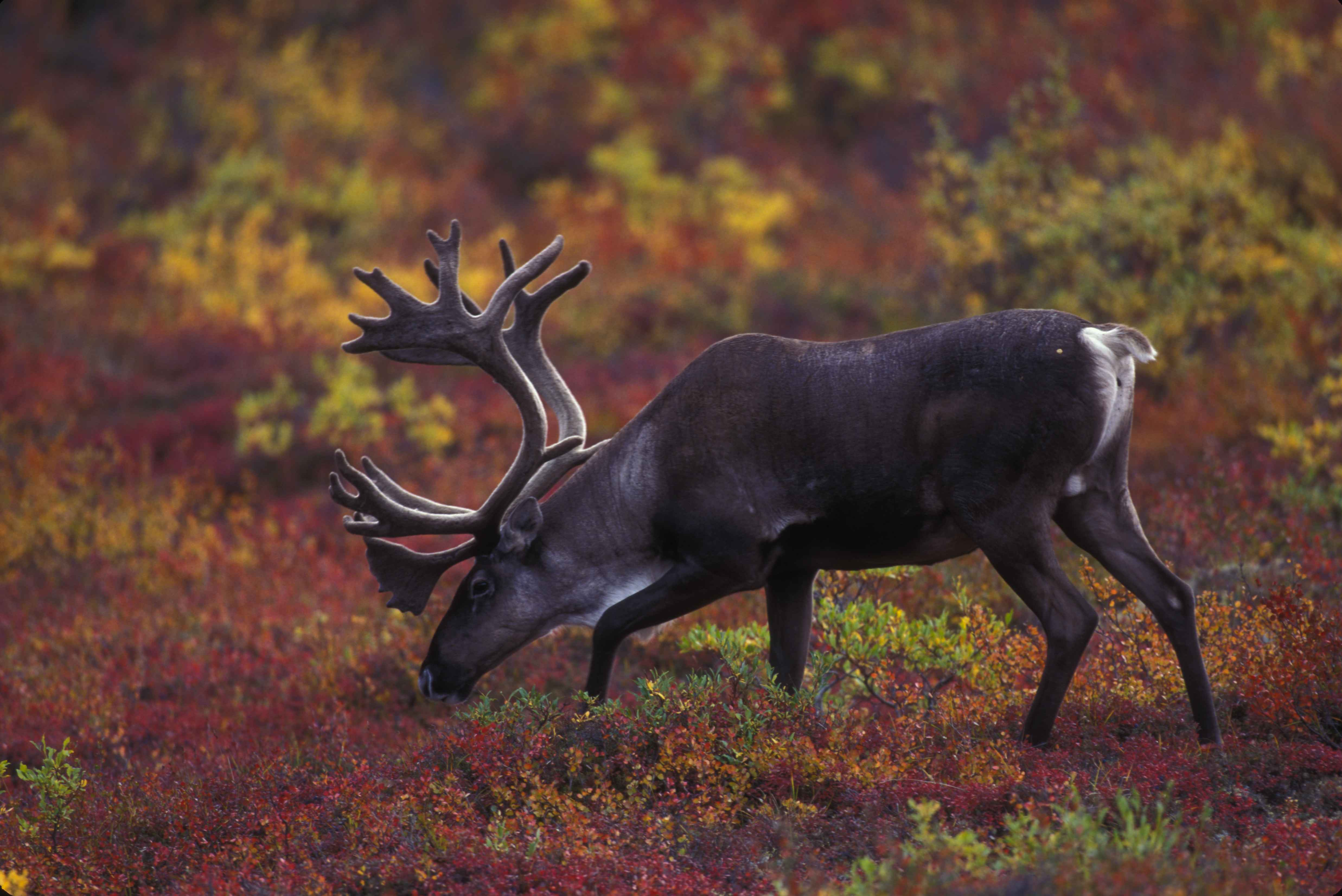 Image title: Barren ground caribou grazing with autumn foliage in background Image from Public domain images website